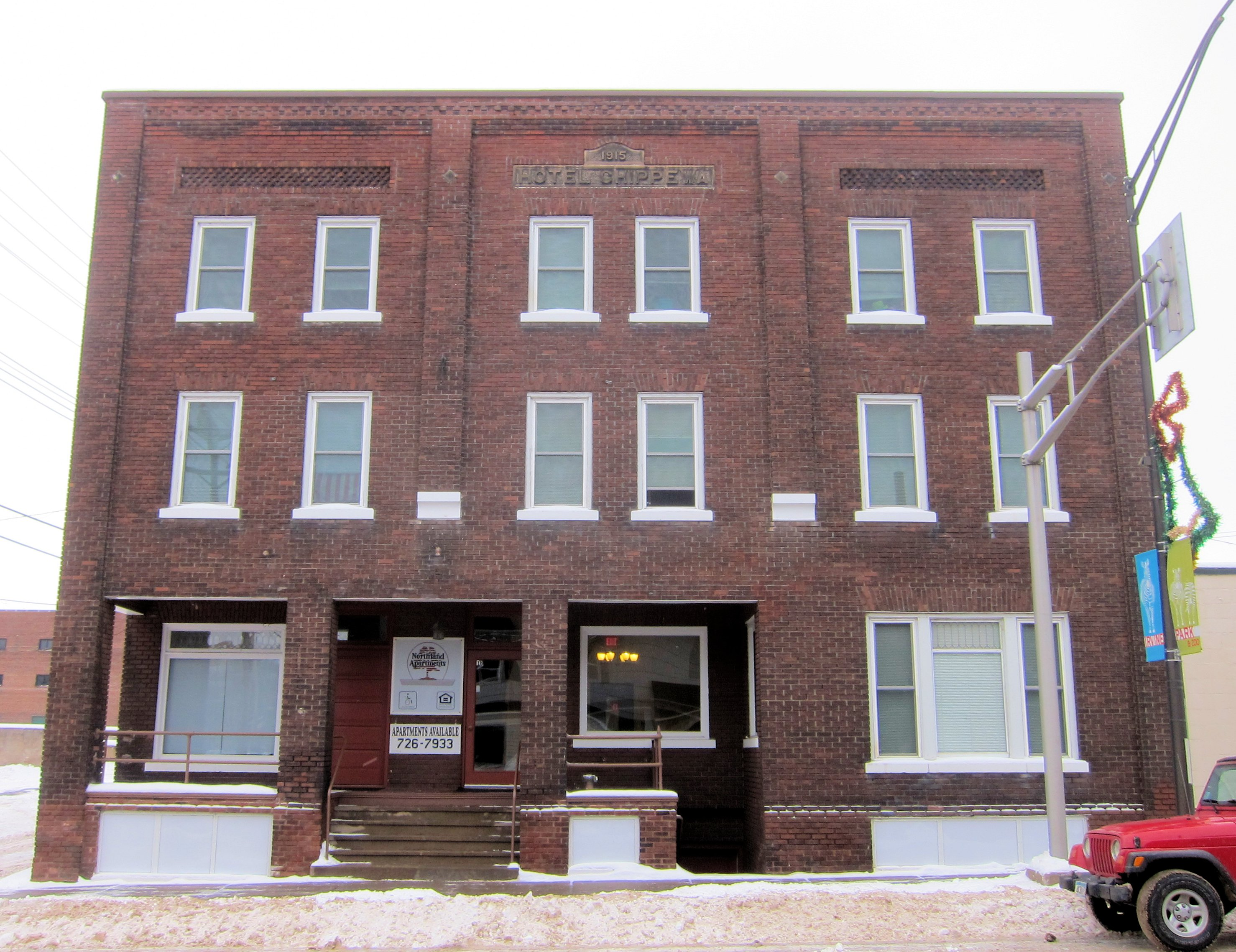 Hotel Chippewa in Chippewa Falls, WI, listed on the National Register of Historic Places.